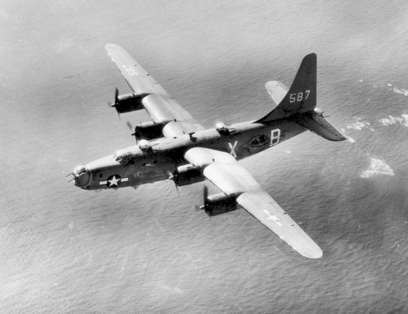 A Consolidated PB4Y-2 Privateer in flight over Naval Air Station Jacksonville, Florida (USA), in 1943.